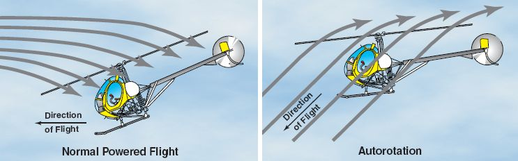 During an autorotation, the upward flow of relative wind permits the main rotor blades to rotate at their normal speed.